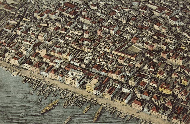 A photograph of Thessaloniki in the late 1800s.